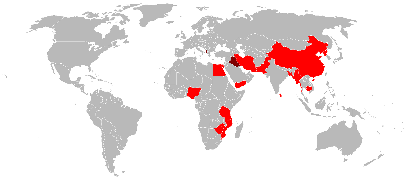 Operators of the Chengdu J-7/F-7.